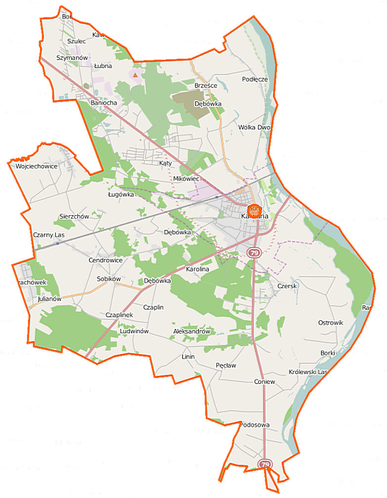 Map of Gmina Góra Kalwaria, Poland This map of Góra Kalwaria (gmina) was created from OpenStreetMap project data, collected by the community. This map may be incomplete, and may contain errors. Don't rely solely on it for navigation. Border coordinates52.056721.0721←↕→21.287751.8862